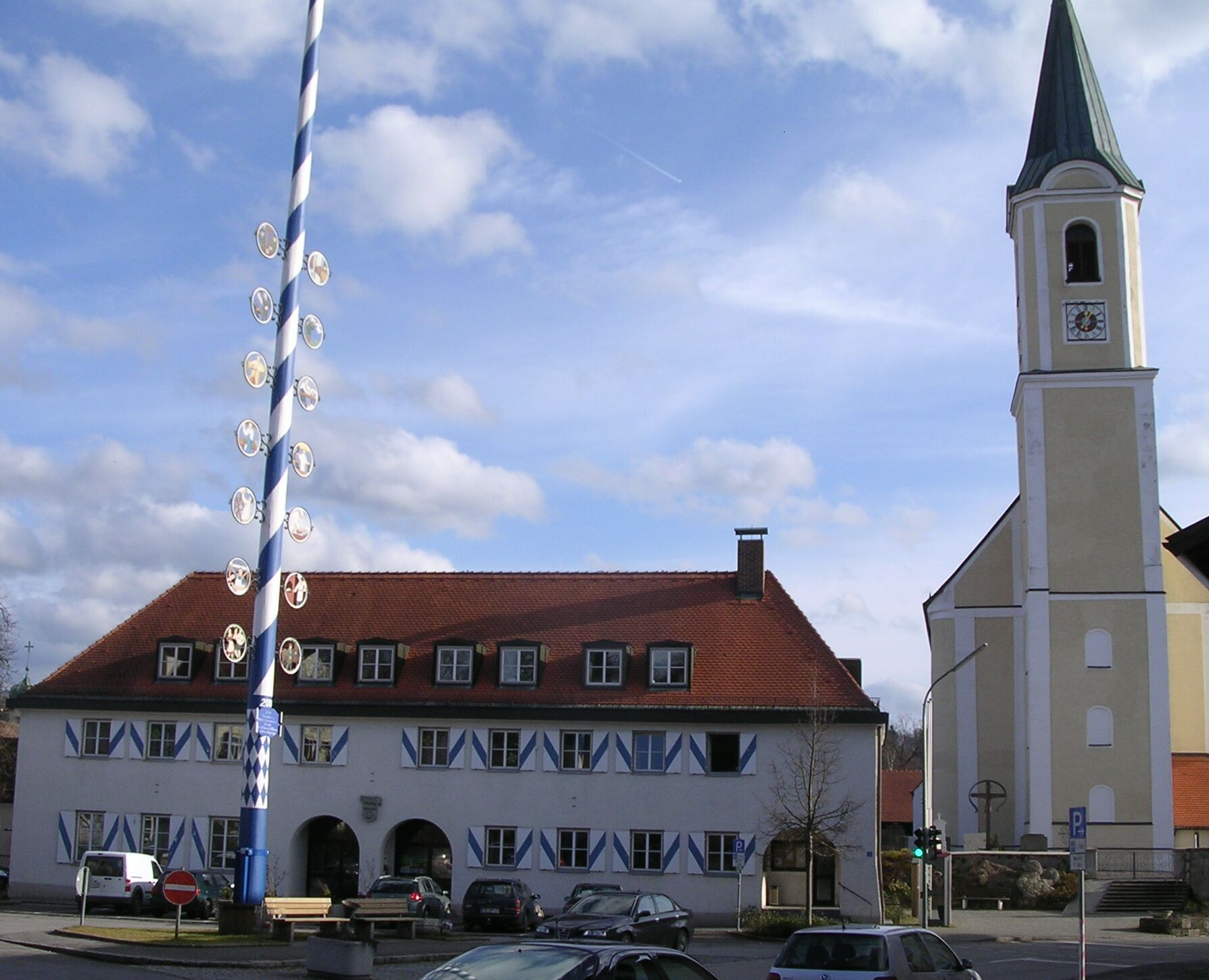 Village Glonn in Upper Bavaria/Germany, view of market square with maypole, town hall and St. Johannes Baptist's church.